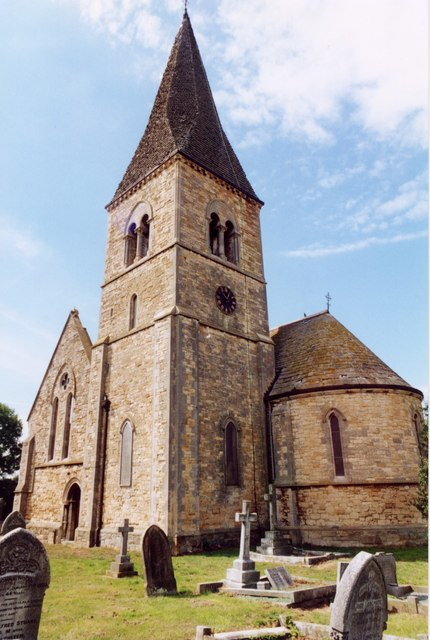 Remains of St Peter's parish church, Bassingham Road, Aubourn, Lincolnshire: designed by JH Hakewill and built in 1863. Now redundant, and partly demolished in 1973.